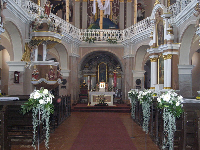 Interior of Telšiai CathedralLietuvių: Telšių Šv. Antano Paduviečio katedros altoriusŽemaitėška: Telšiū Šv. Antana Paduviete katedras altuorios